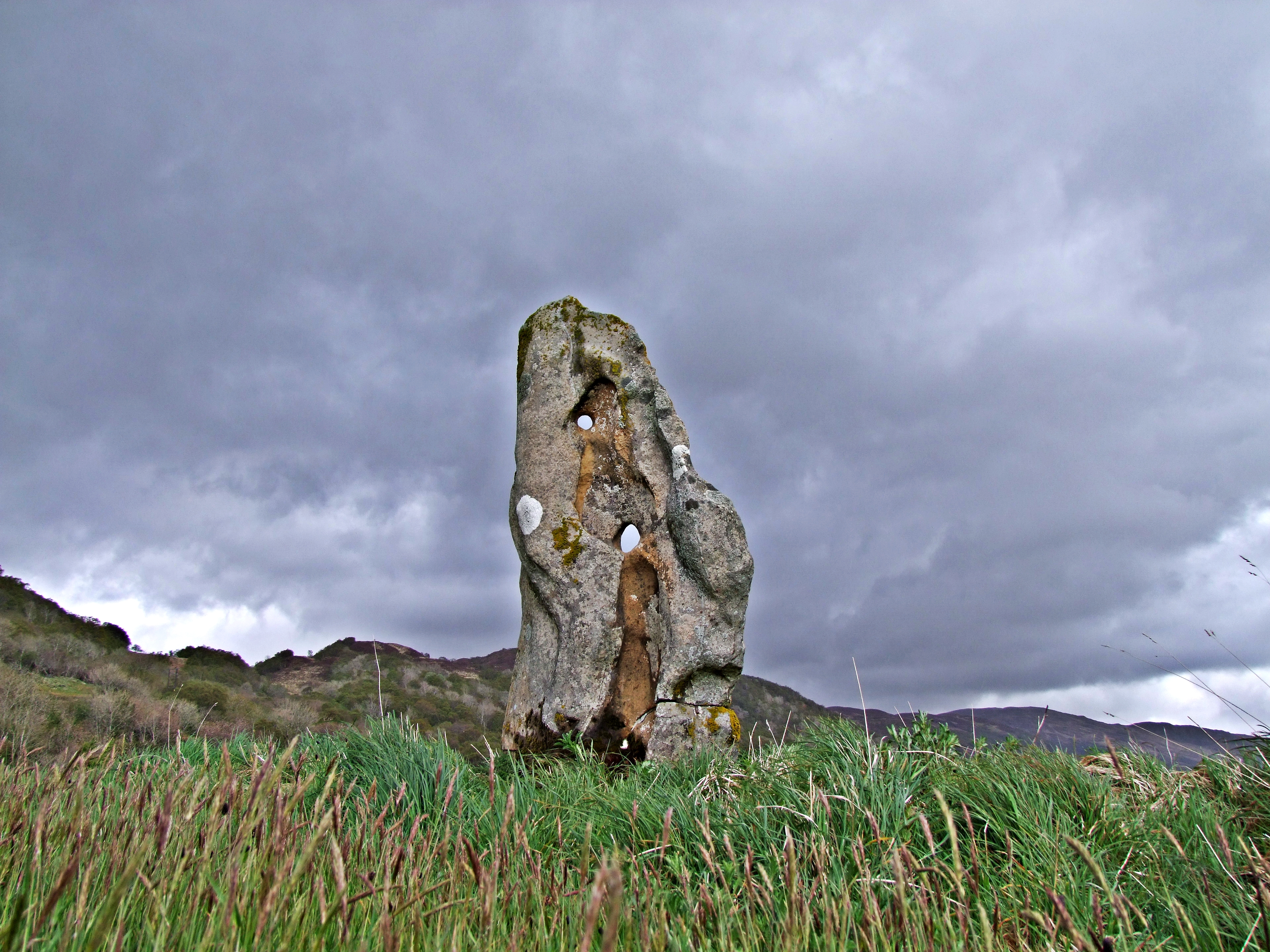 Standing stone in Highlands, Scotland, United Kingdom. Clach a' Charra, or Stone of Vengeance, commemorates the supposed killing of John Comyn's sons, 11 miles down Loch Linnhe.